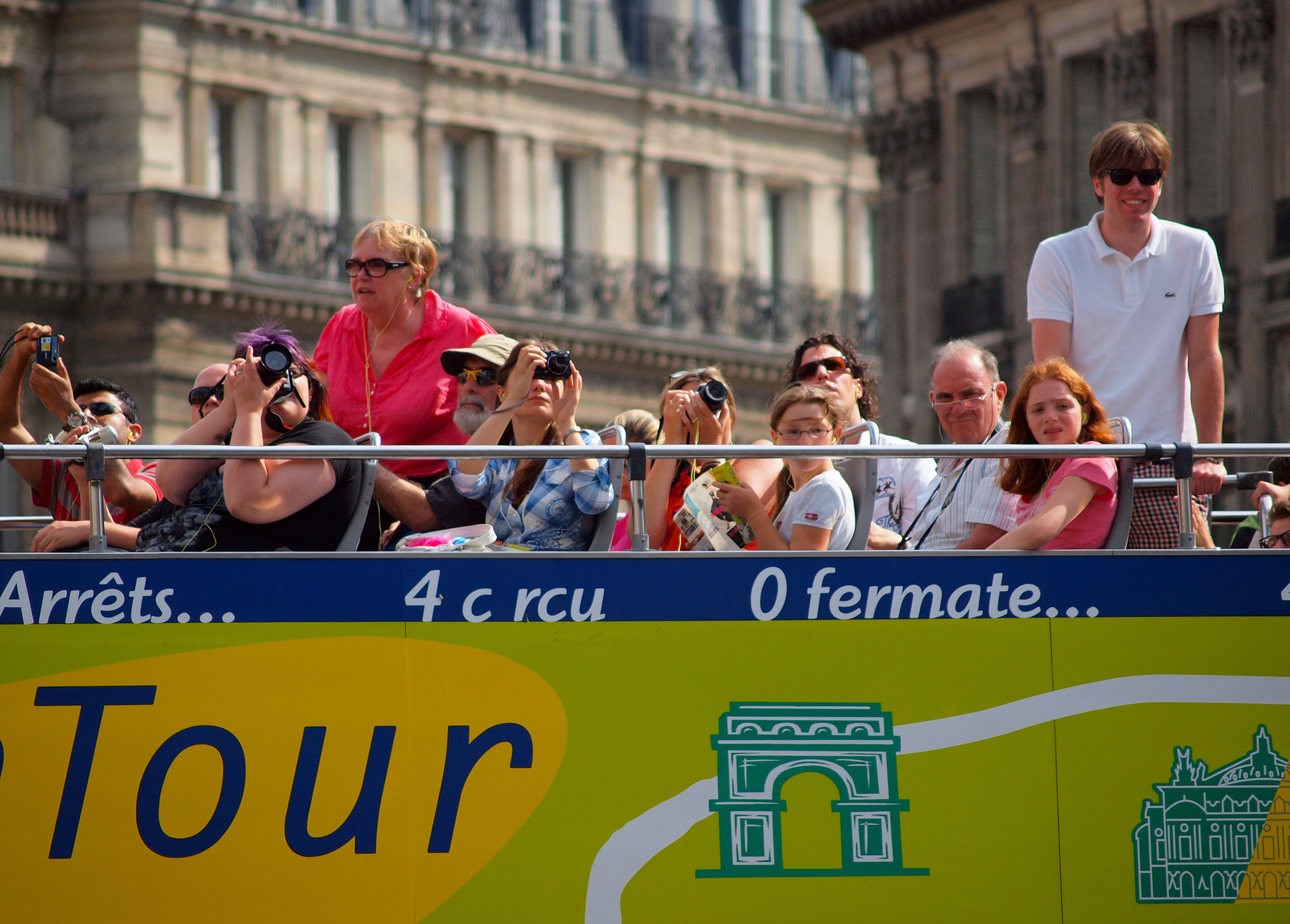 Tourists on an open-top bus tour of Paris, France.